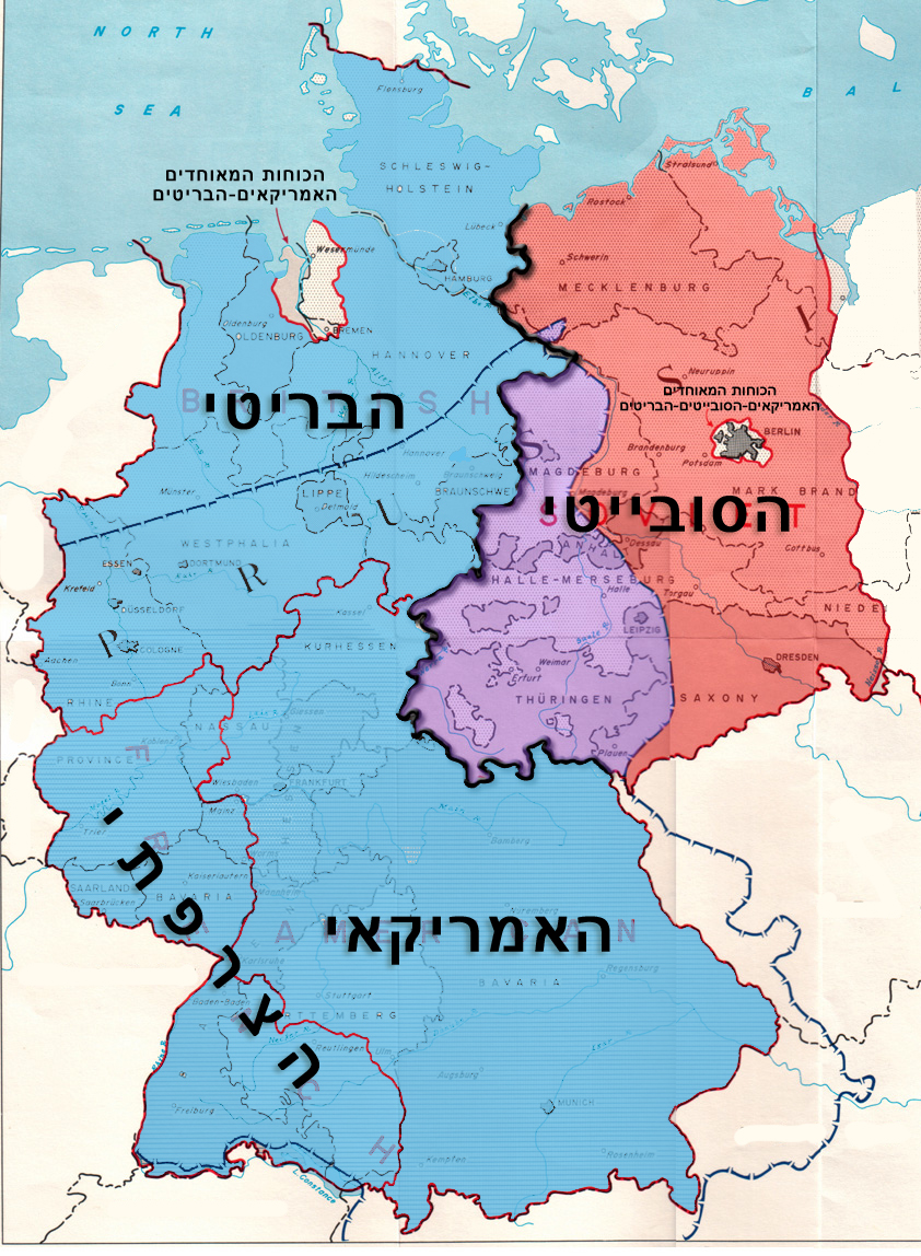 Based on File:Germany occupation zones with border.jpg